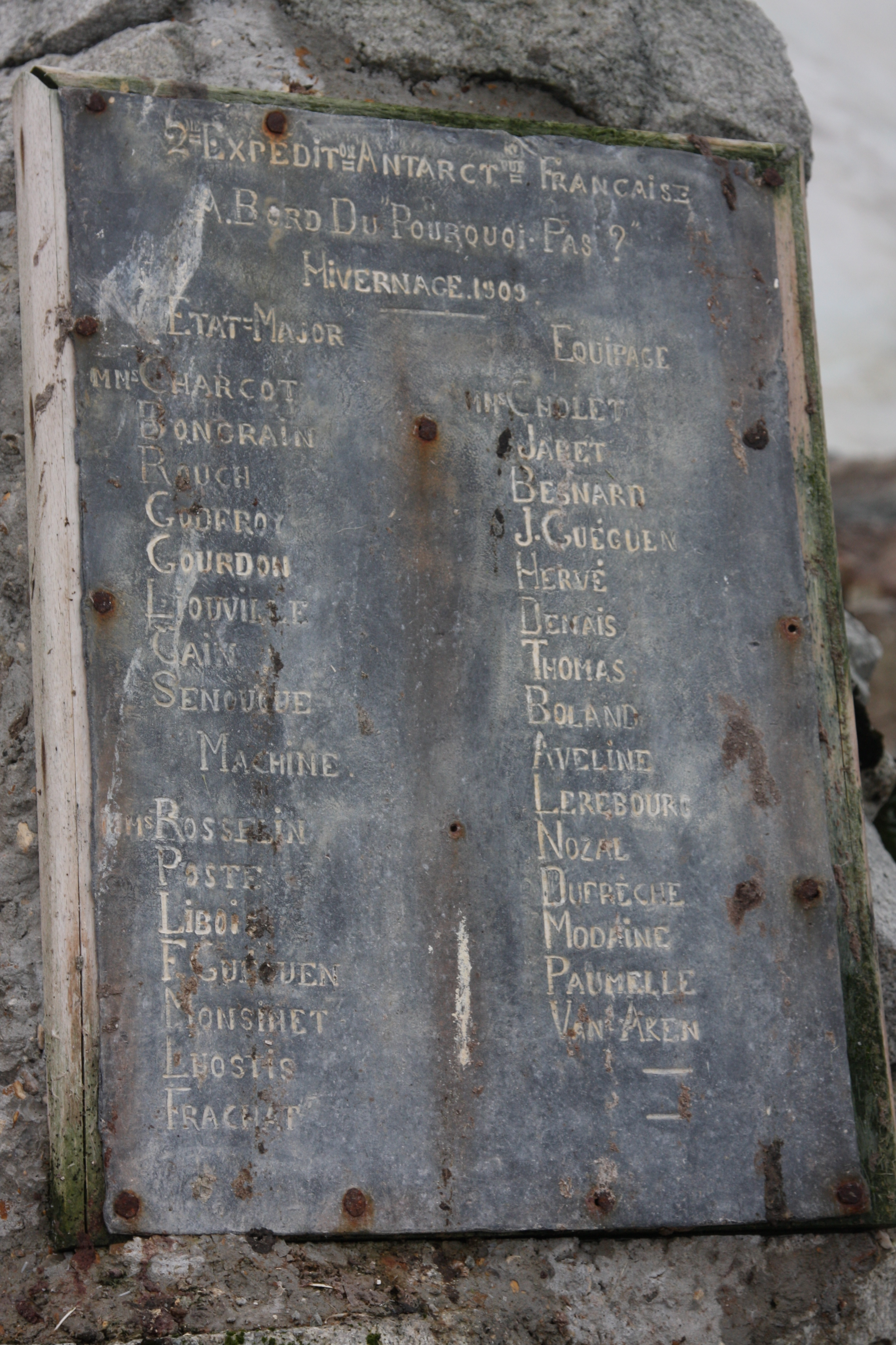 Plaque at the summit of Petermann Island Antarctica. Lists crew members of 1908-1910 Charcot expedition on the Pourquoi pas IV.